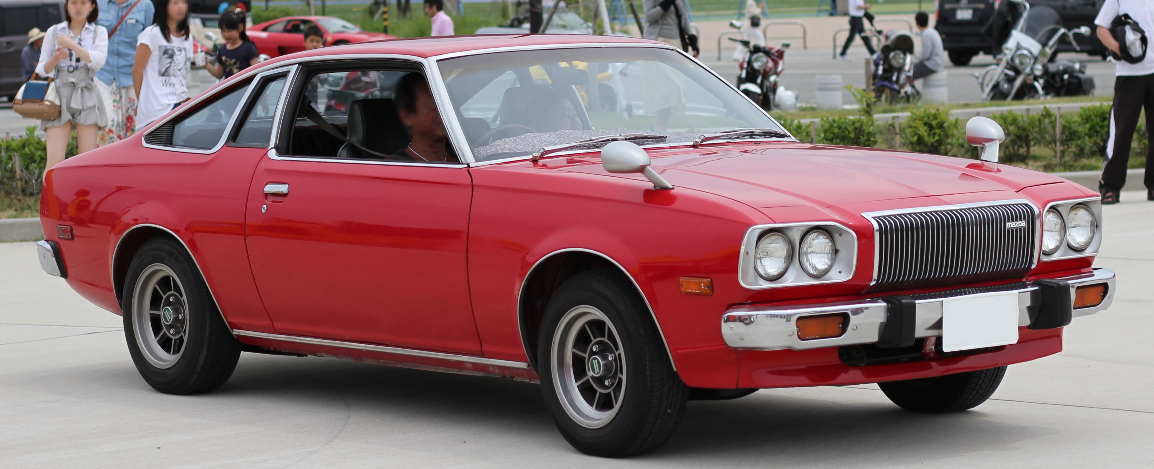 Mazda Cosmo